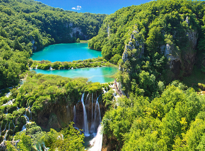 Plitvice Lakes National Park.